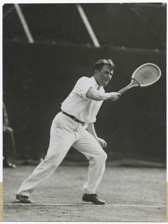 American tennis player Clarence James Griffin, of California, semi-finalist at the Crescent A.C. Championship.